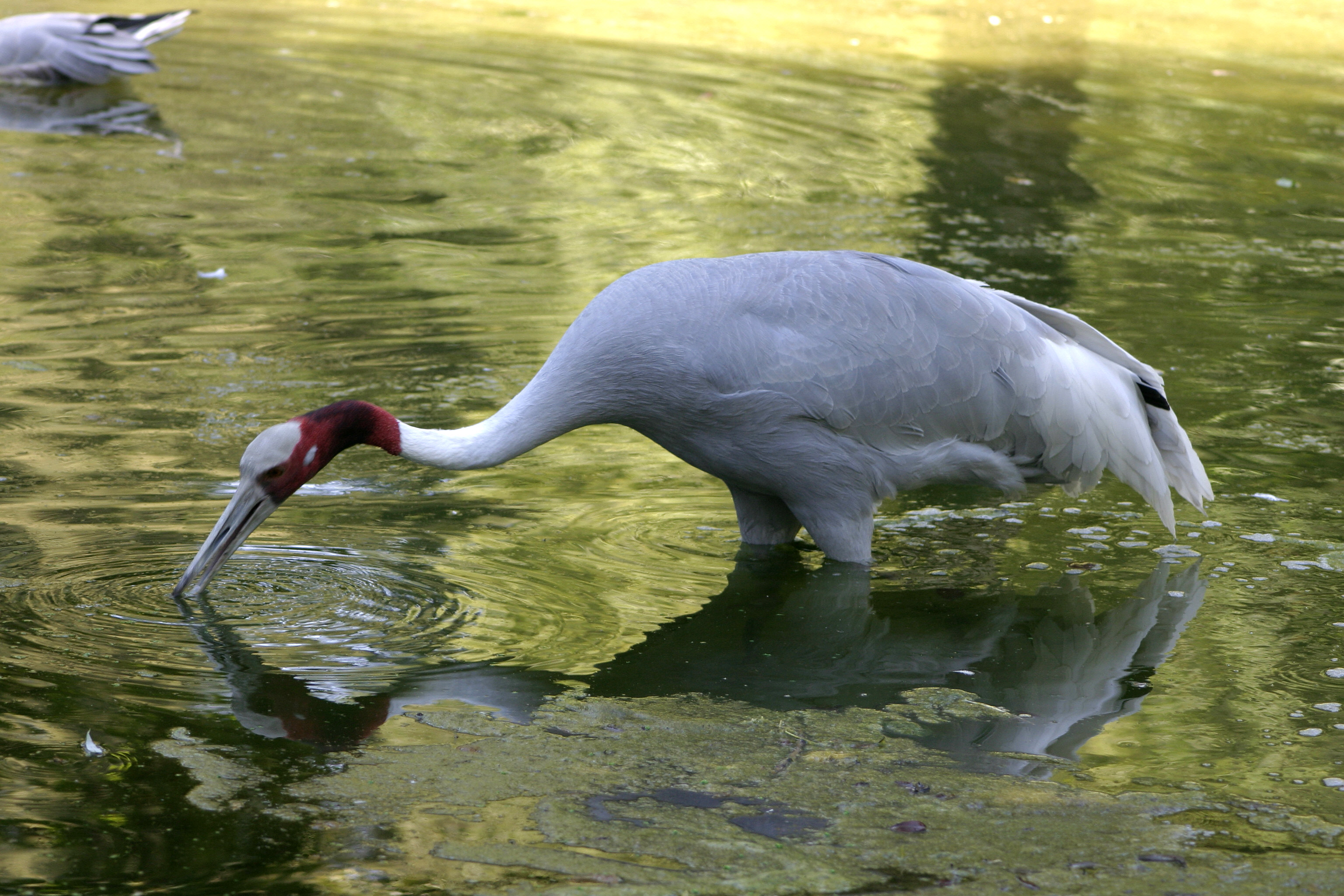 Sarus crane 01